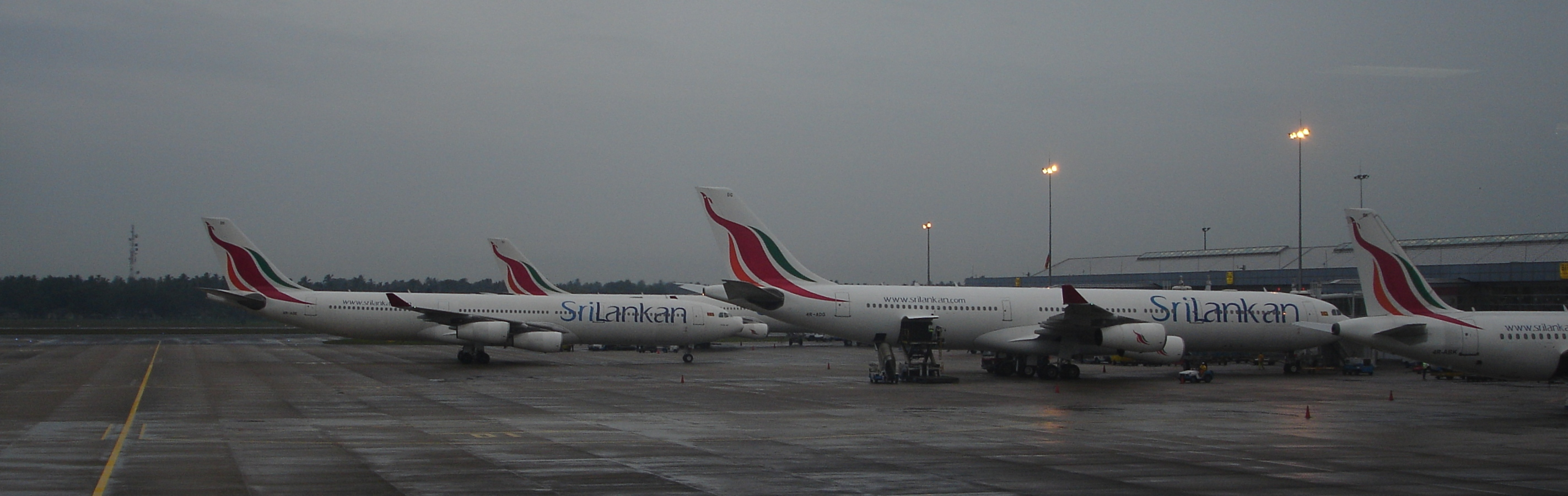 SriLankan Airlines a/c at bandaranaike intl airport, colombo